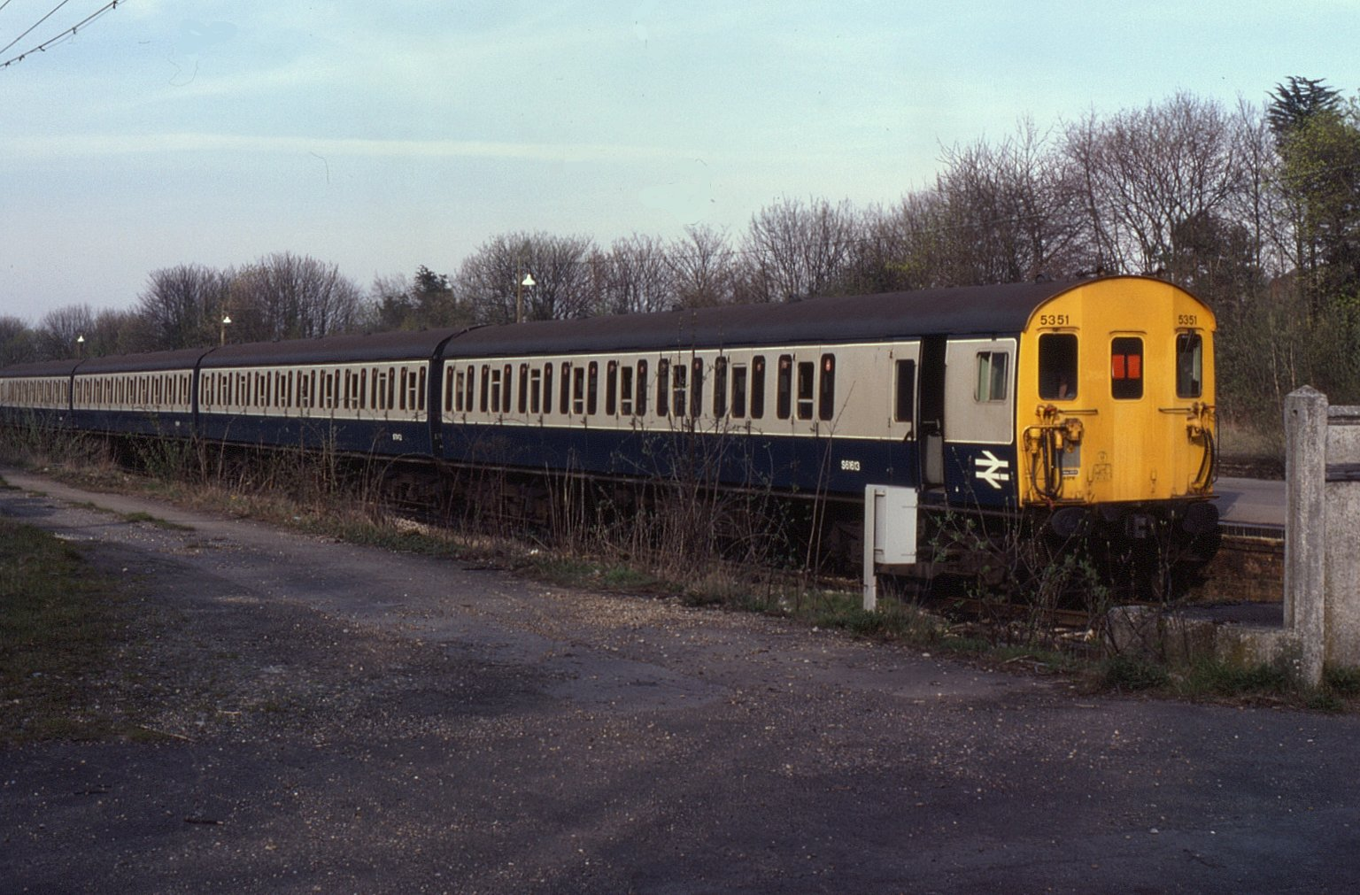 Set of three photos from the mid-1980s depicting slam door EPB stock. Furthermore, all were taken at dead end branch line termini stations on the outskirts of London. Seen here is 4EPB no. 5351 at Epsom Downs on 21 April 1984 on the 17:39 to London Victoria.